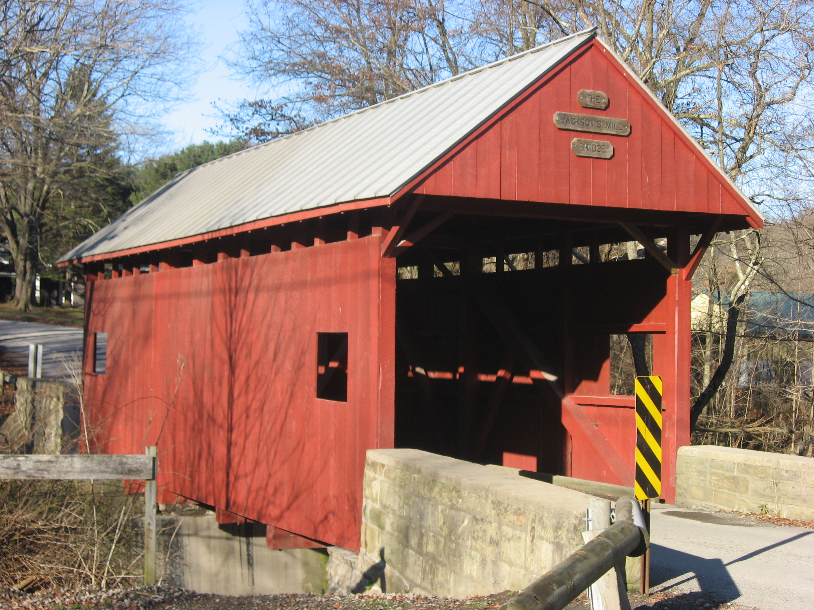 Eastern portal and southern side of the Jackson's Mill Covered Bridge, which carries Kings Creek Road over Kings Creek northwest of Burgettstown in Hanover Township, Washington County, Pennsylvania, United States. Built in the 1870s, it is listed on the National Register of Historic Places.